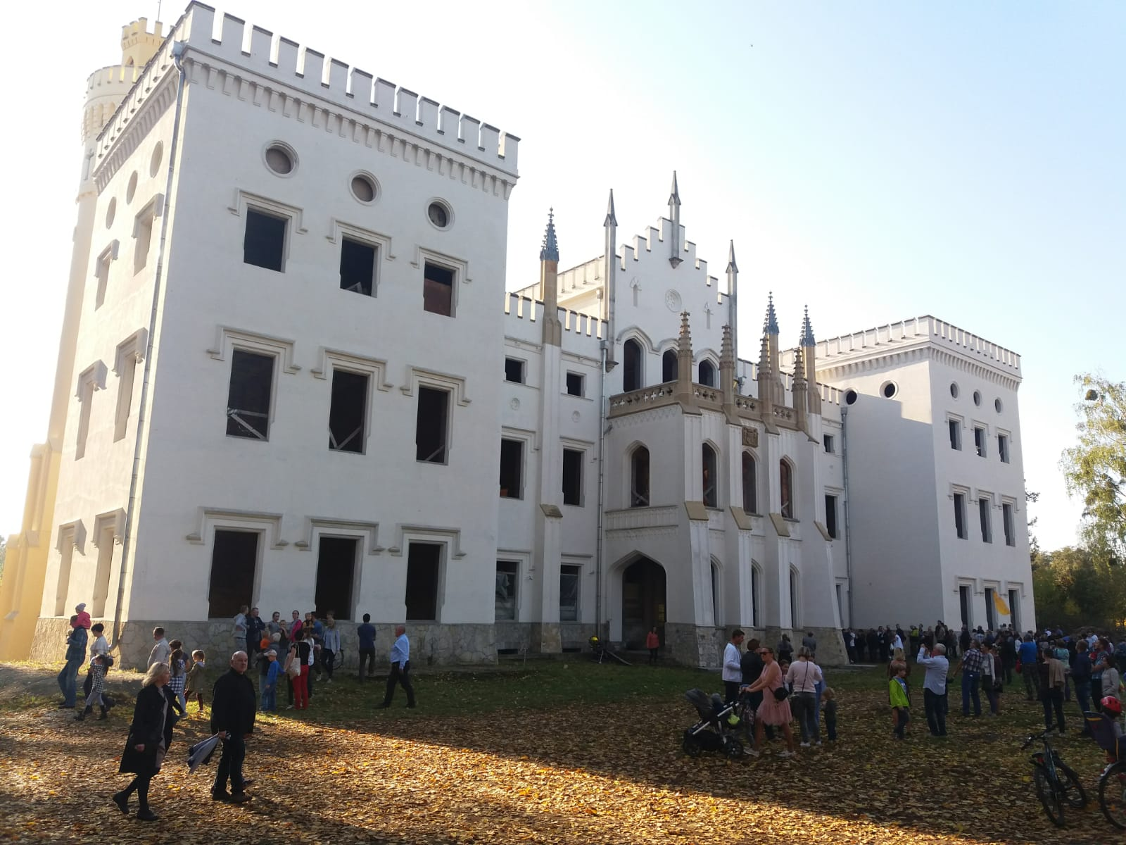 Lipowa Street in Dobra 03.1964.